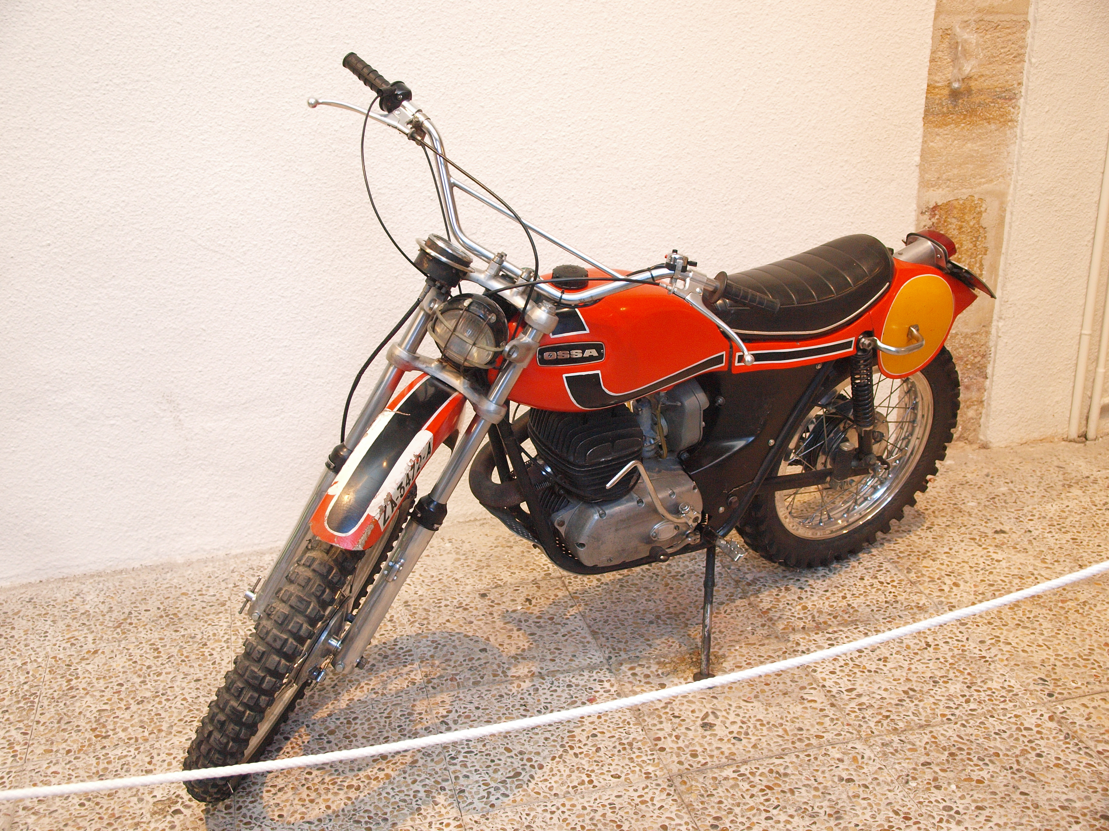 Ossa Enduro E-72 motorbike, year 1972, at exhibition in Zamora (Spain) in the III Show of the Asociación Motociclista Zamorana (Zamora's Motorbike Association), February 2013